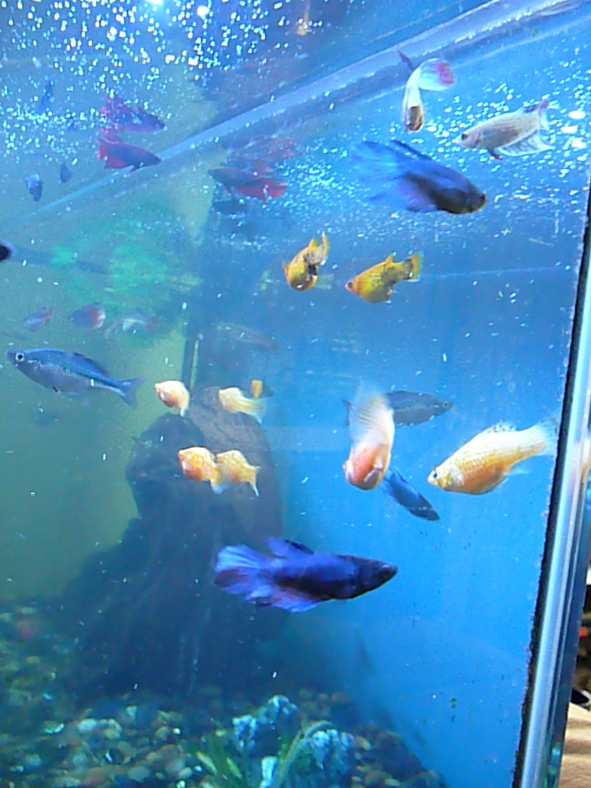 Female Betta splendens (also called "siamese fighting fish" or simply "bettas") in a community tank, with mollies (Poecilia sp) and rainbow fish visible. the male betta does not go well with another male,as for the female gets along with other females in a well planted tank.